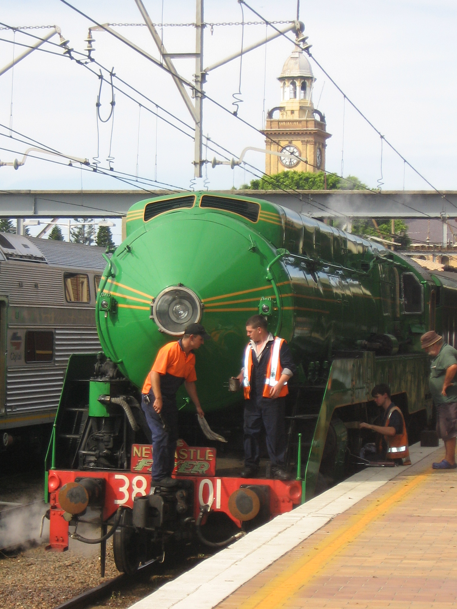 3801, replicating the old Newcastle Flyer, at Newcastle in 2007 by it old owners NSWRTM